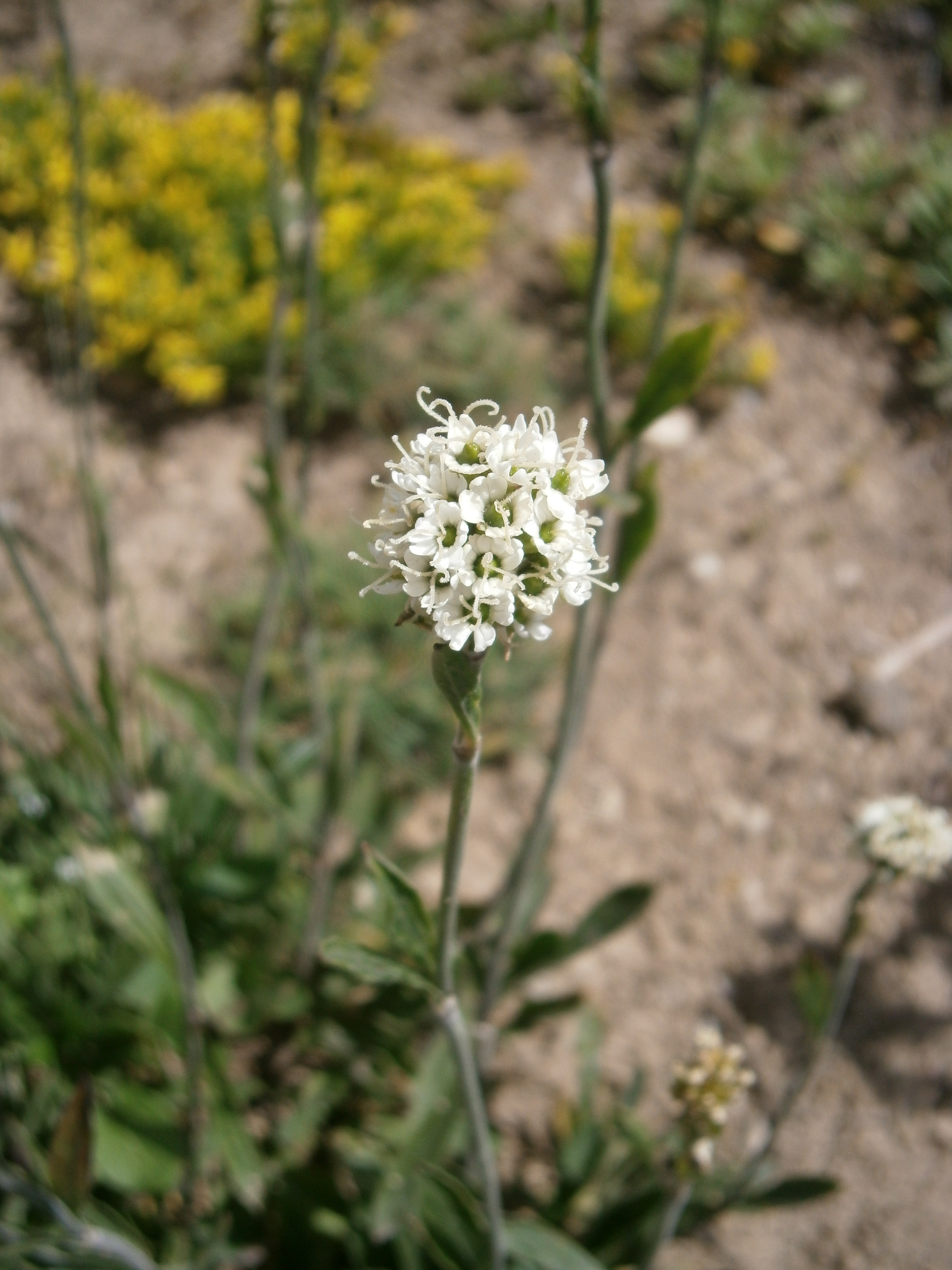 Saponaria bellidifolia in the Jardin Botanique Alpin du Lautaret